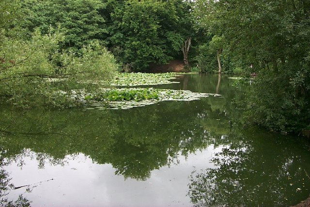 Millers Pond, Sholing Common. Named after the mill that once stood next to the pond